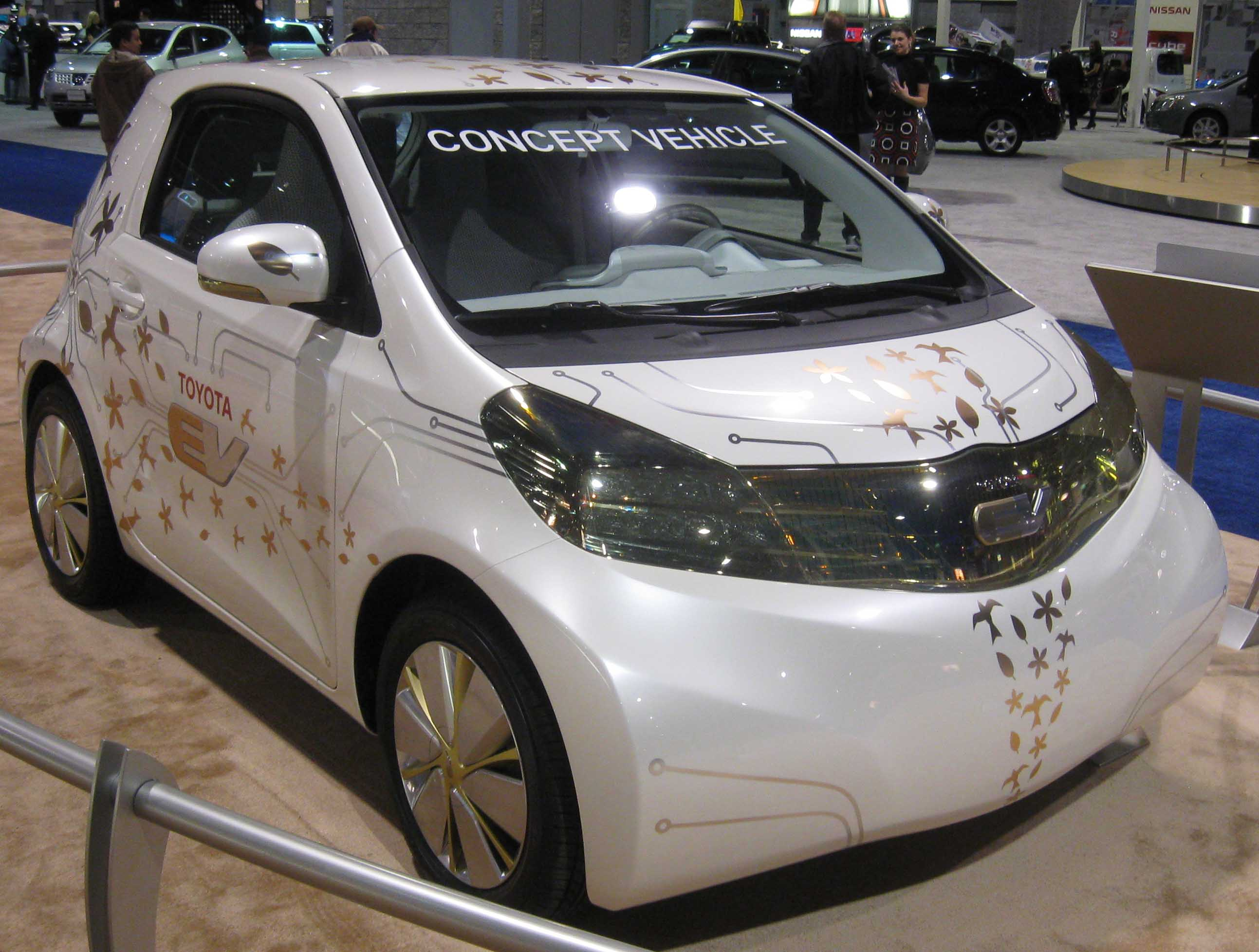 Toyota iQ EV photographed at the 2009 Washington DC Auto Show.